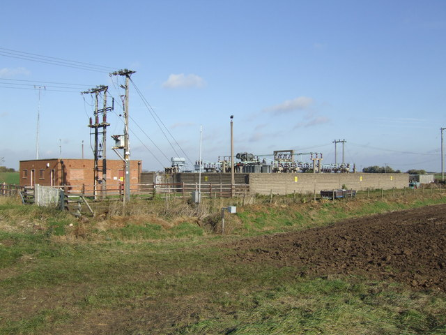 EMEB substation Located off Cloot Drove, north of Crowland, this facility was built in 1963.